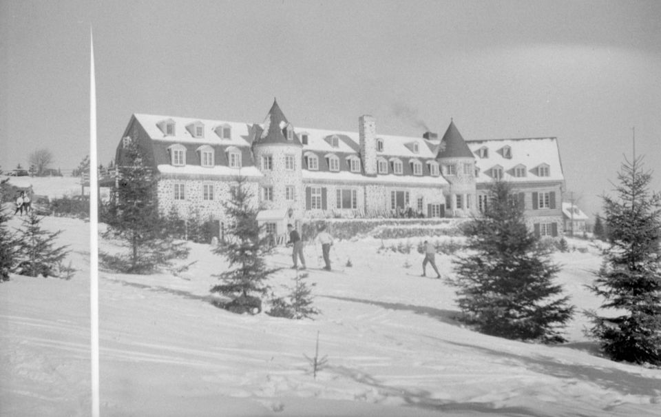 Cross-country skiers heading to Le Chantecler in Sainte-Adèle in the Laurentians.